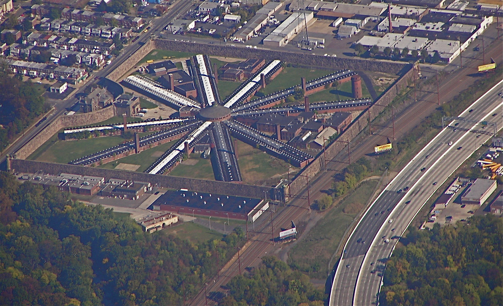 Holmesburg Prison seen from the air; Philadelphia, Pennsylvania; October 2007.